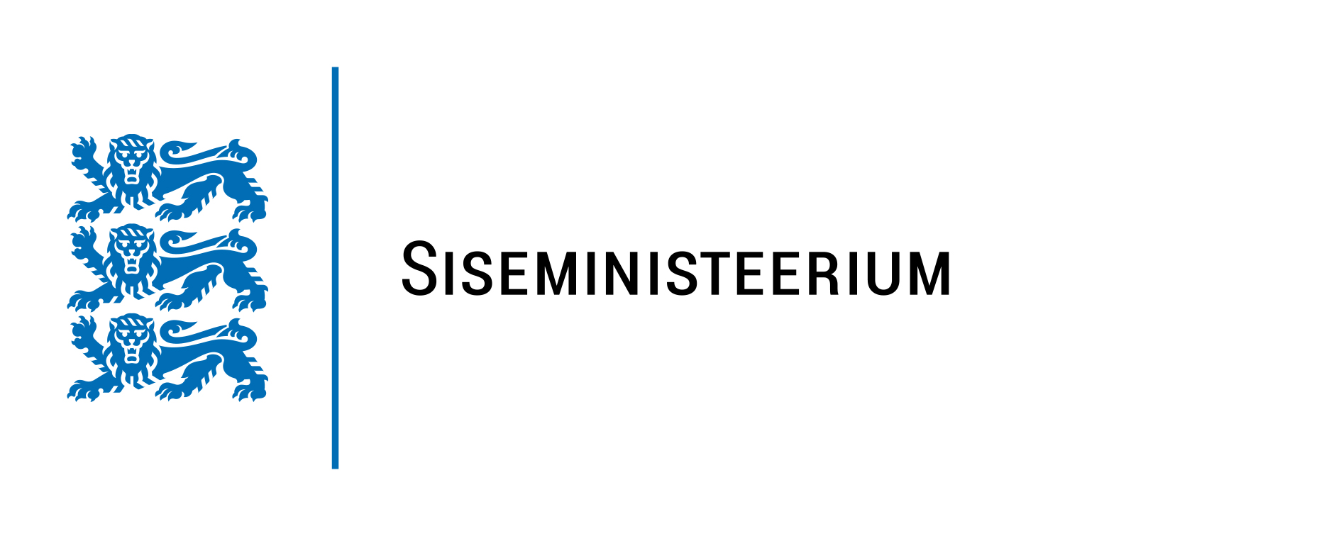 The logo of the Estonian Ministry of the Interior